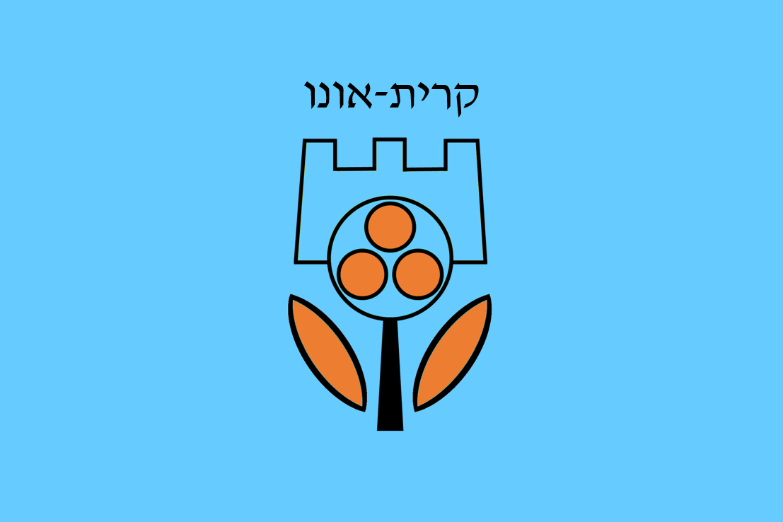 Flag of Kiryat Ono